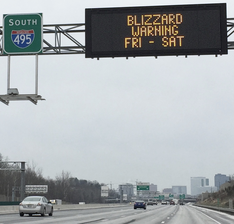 Variable message signs reading 'Blizzard Warning - Fri-Sat' on the southbound outer loop of the Capital Beltway (Interstate 495) in McLean, Fairfax County, Virginia-cropped